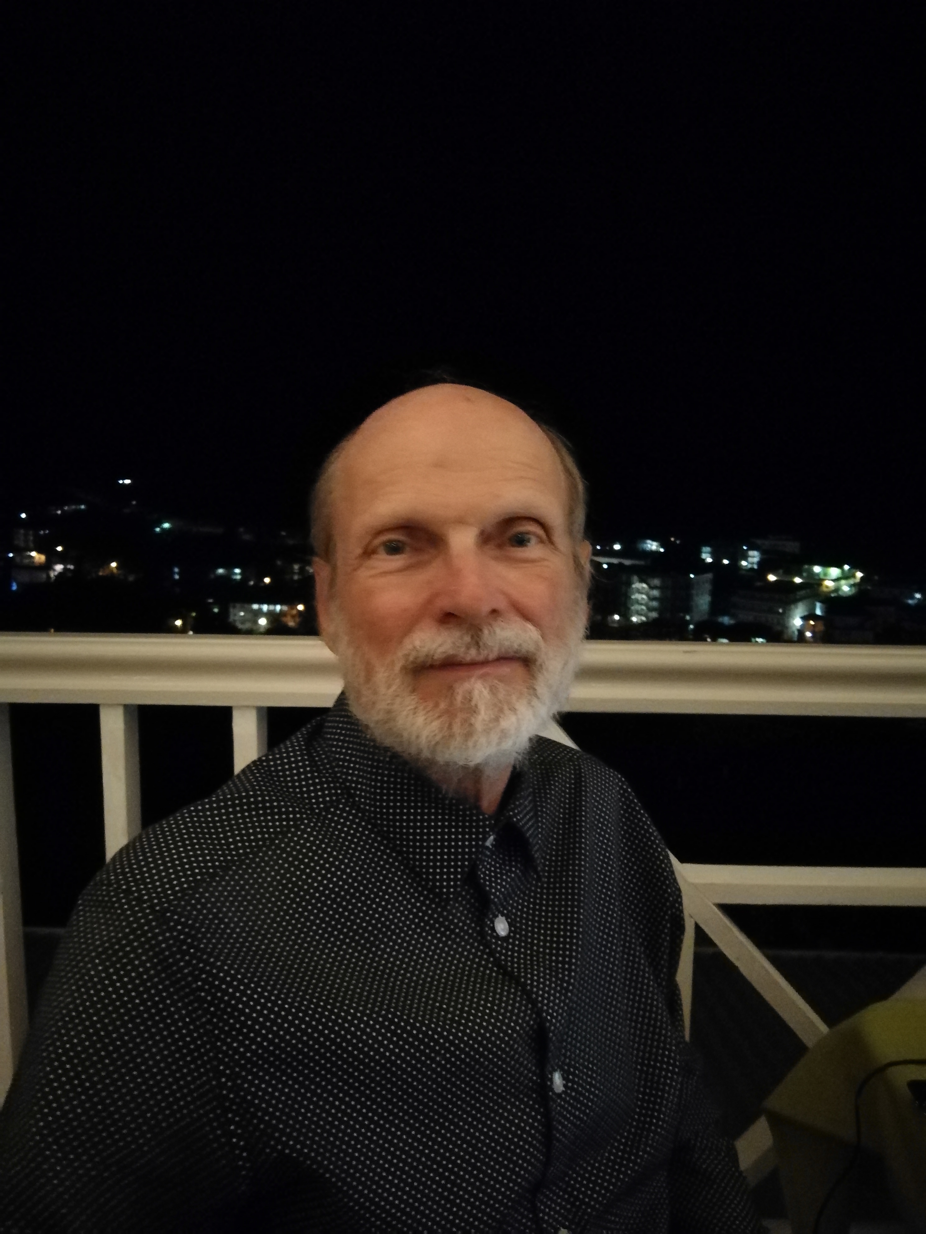 Gerhard Meisenberg, Portsmouth, Dominica, 2018.